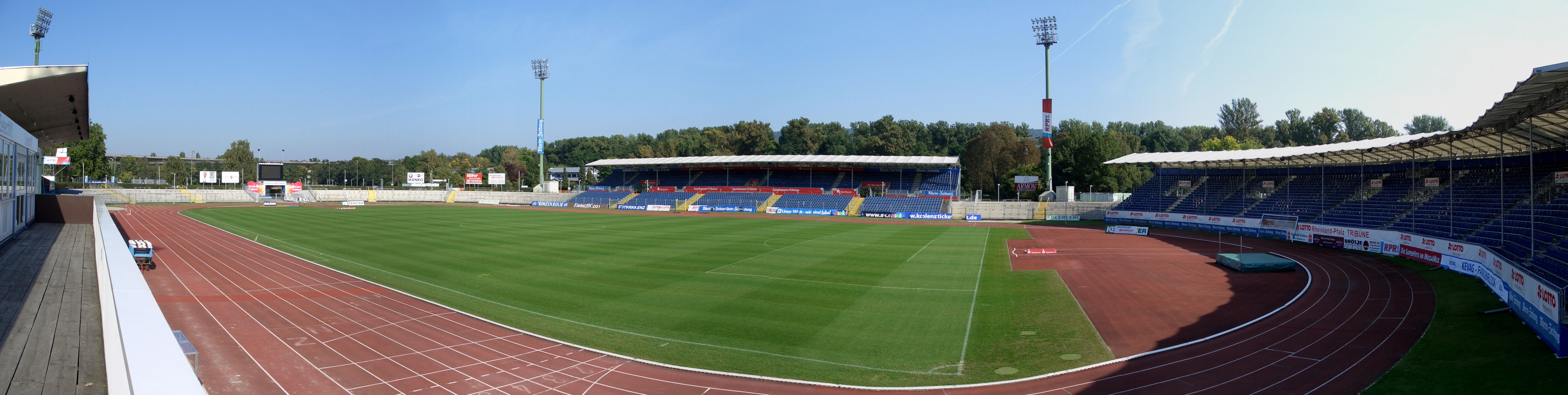 Interior view of the Stadion Oberwerth in Koblenz